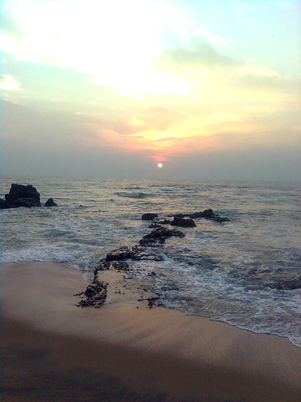 Sunrise over the bay of bengal at Vizag